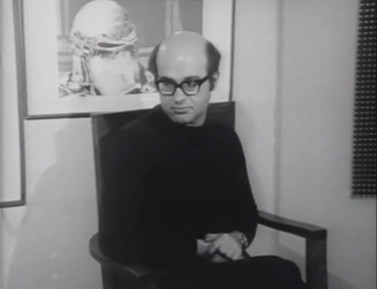 Ardeshir Mohasses, (1938-2008) Iranian American illustrator .